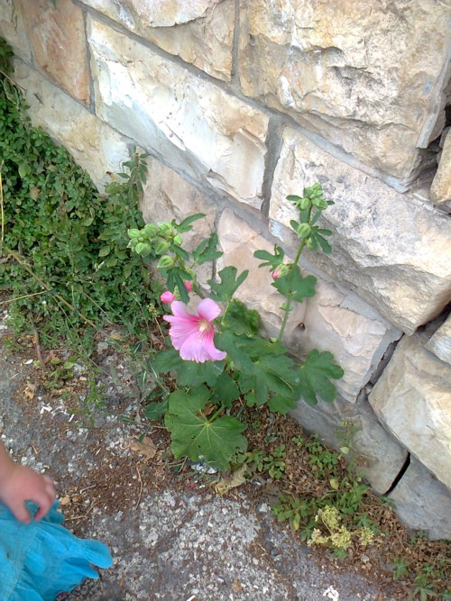 Mallow plant in Jerusalem, Israel